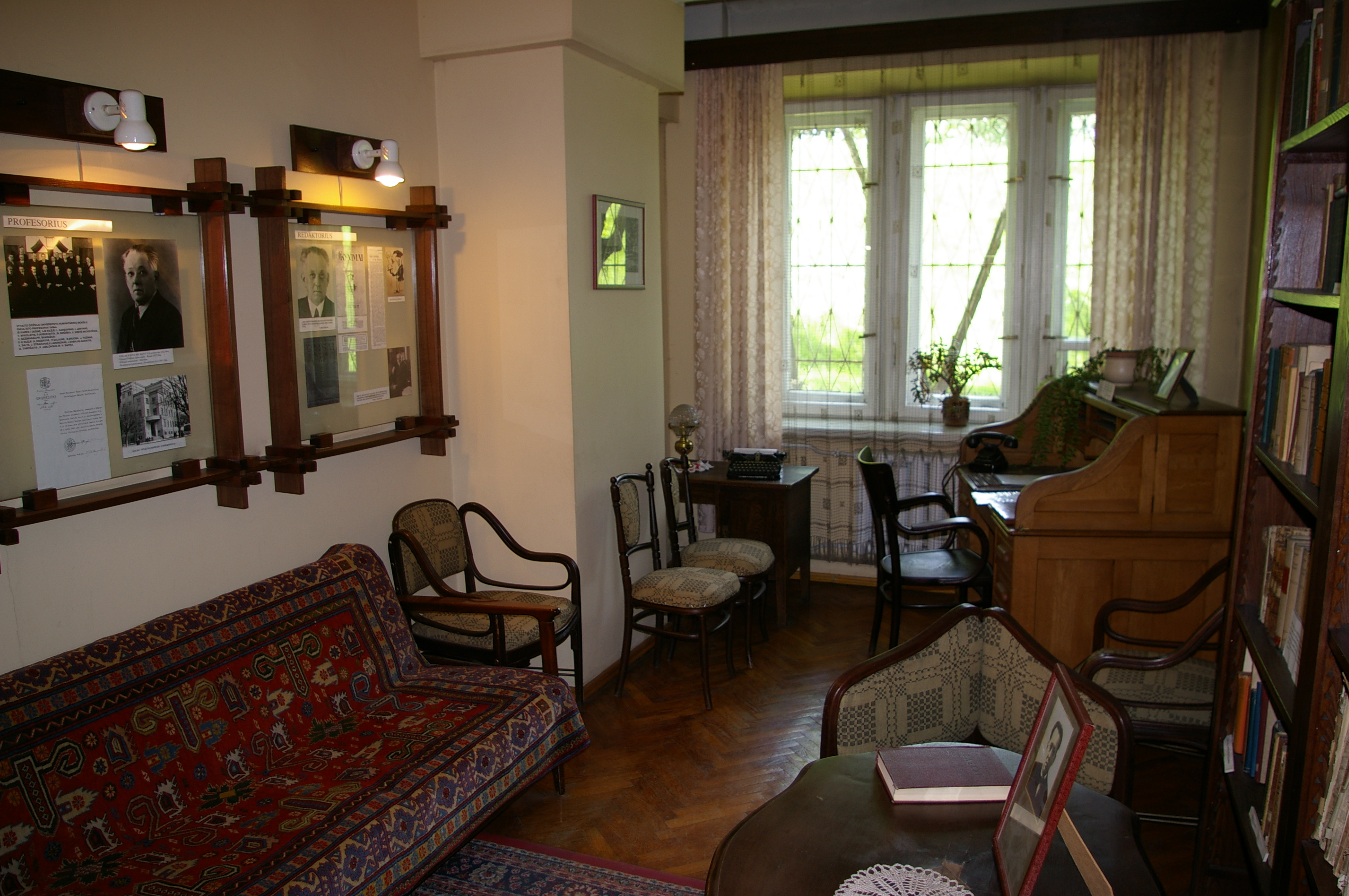 Vincas Krėvė-Mickevičius memorial museum. Adress: Tauro str. 10, Vilnius, Lithuania.